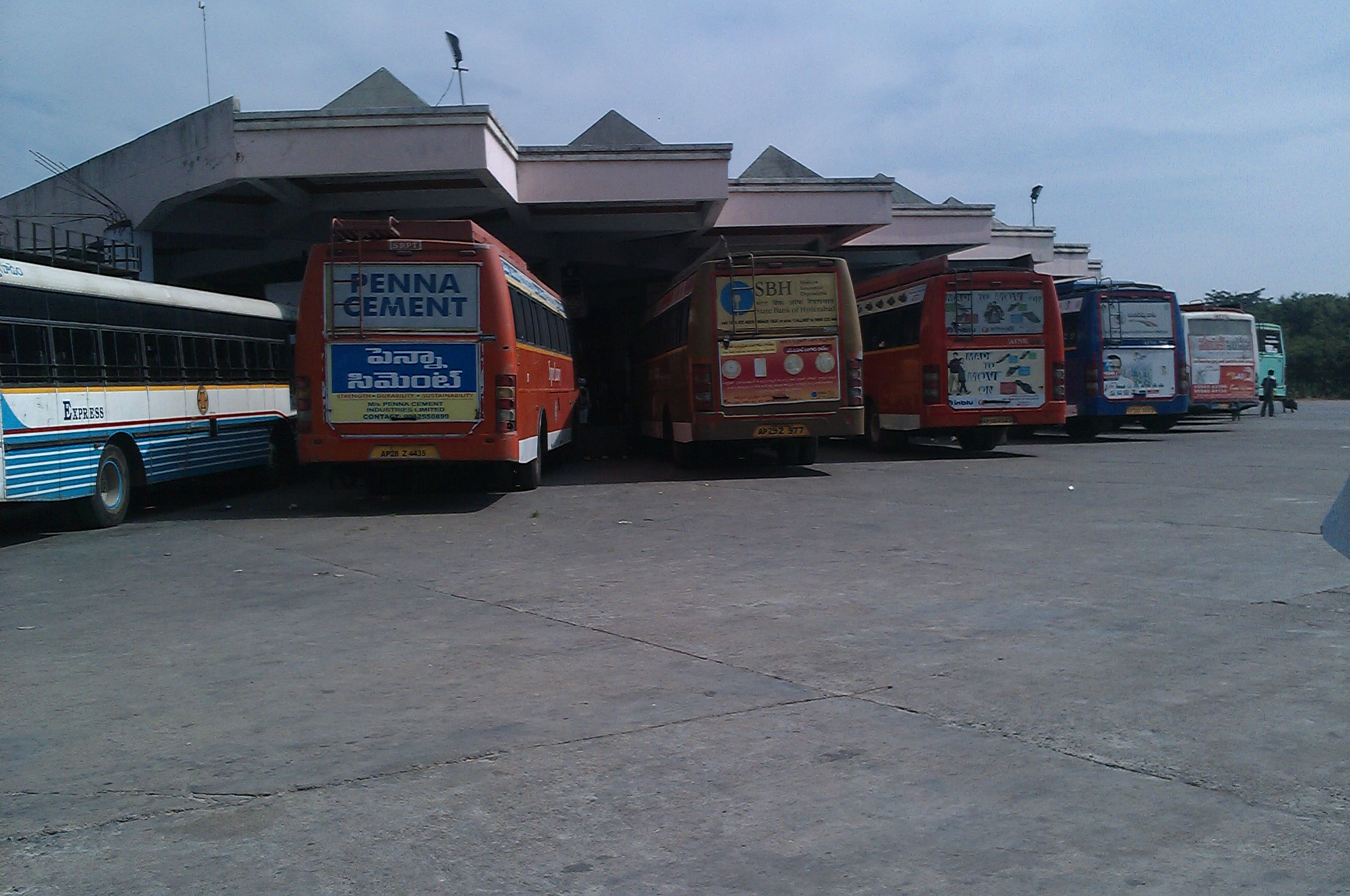 This is the hi-tech bus station in suryapet